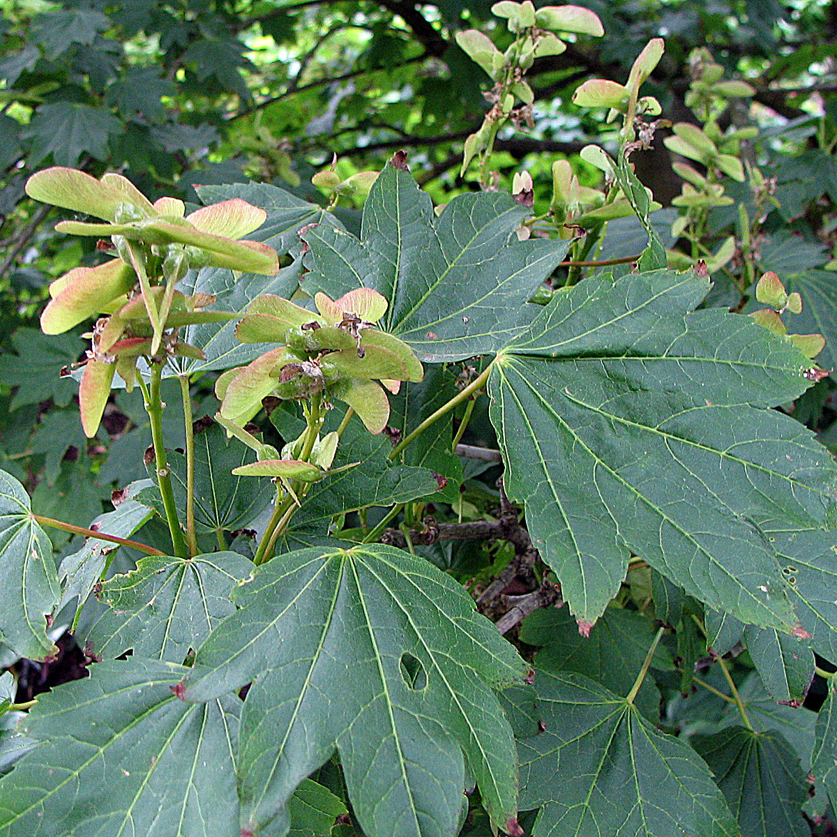 Acer erianthum fruits and leaves Kew